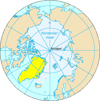 Arctic and Groenland